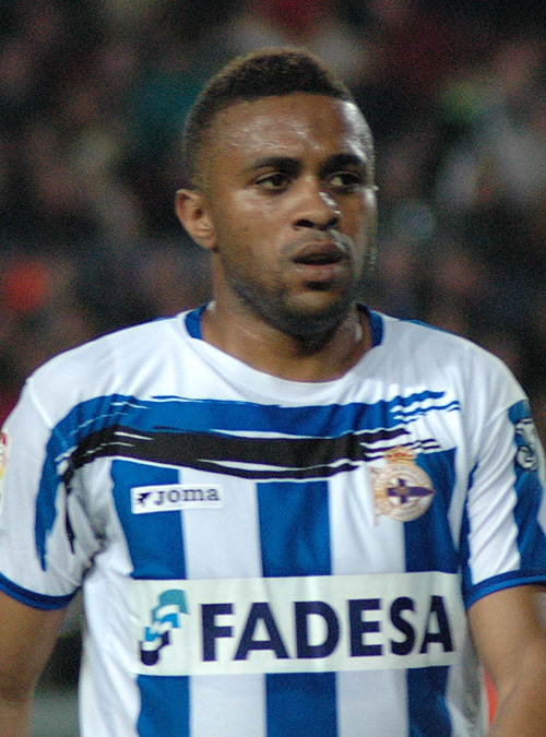 Jorge Andrade, Deportivo de La Coruña's player, during the match FC Barcelona-Deportivo de La Coruña.